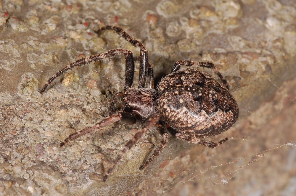 Nuctenea umbratica, Nied, Frankfurt/Main, Germany